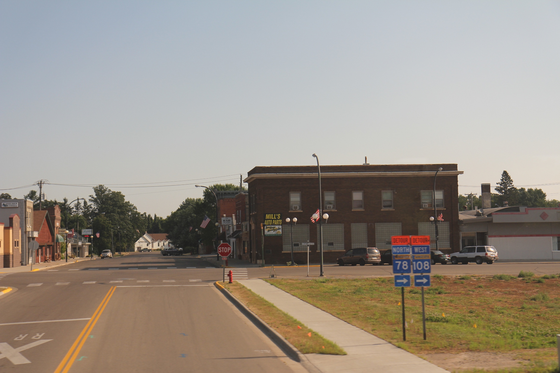 New York Mills, MN photographed from Amtrak